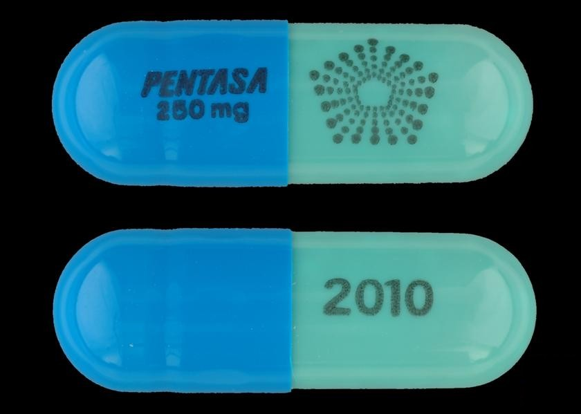 Drug Name: Pentasa 250 MG Extended Release Capsule Ingredient(s): Mesalamine Imprint: PENTASA;250;mg;S429;250;mg Color(s): Green, Blue Shape: Capsule Size (mm): 20.00 Score: 1 Inactive Ingredient(s): ShowHide castor oil / colloidal silicon dioxide / stearic a... castor oil / colloidal silicon dioxide / stearic acid / talc / d&c yellow no. 10 / fd&c blue no. 1 / fd&c green no. 3 / gelatin / titanium dioxide Drug Label Author: Shire US Manufacturing Inc. DEA Schedule: Non-scheduled